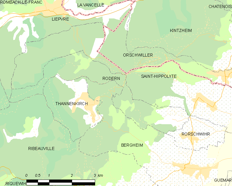 Map of French municipality